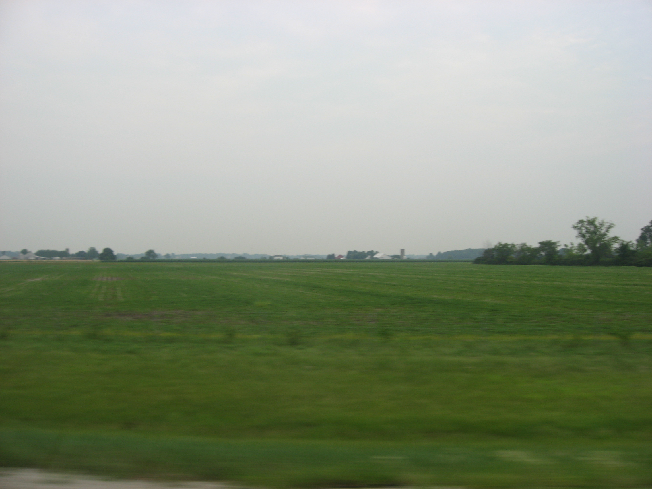 Broad farm fields in southwestern Rice Township, Sandusky County, Ohio, United States. Picture taken looking northward from the concurrent Interstates 80/90 (the Ohio Turnpike).